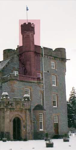 Baronial in house, Argyll, Scotland, built in 1884